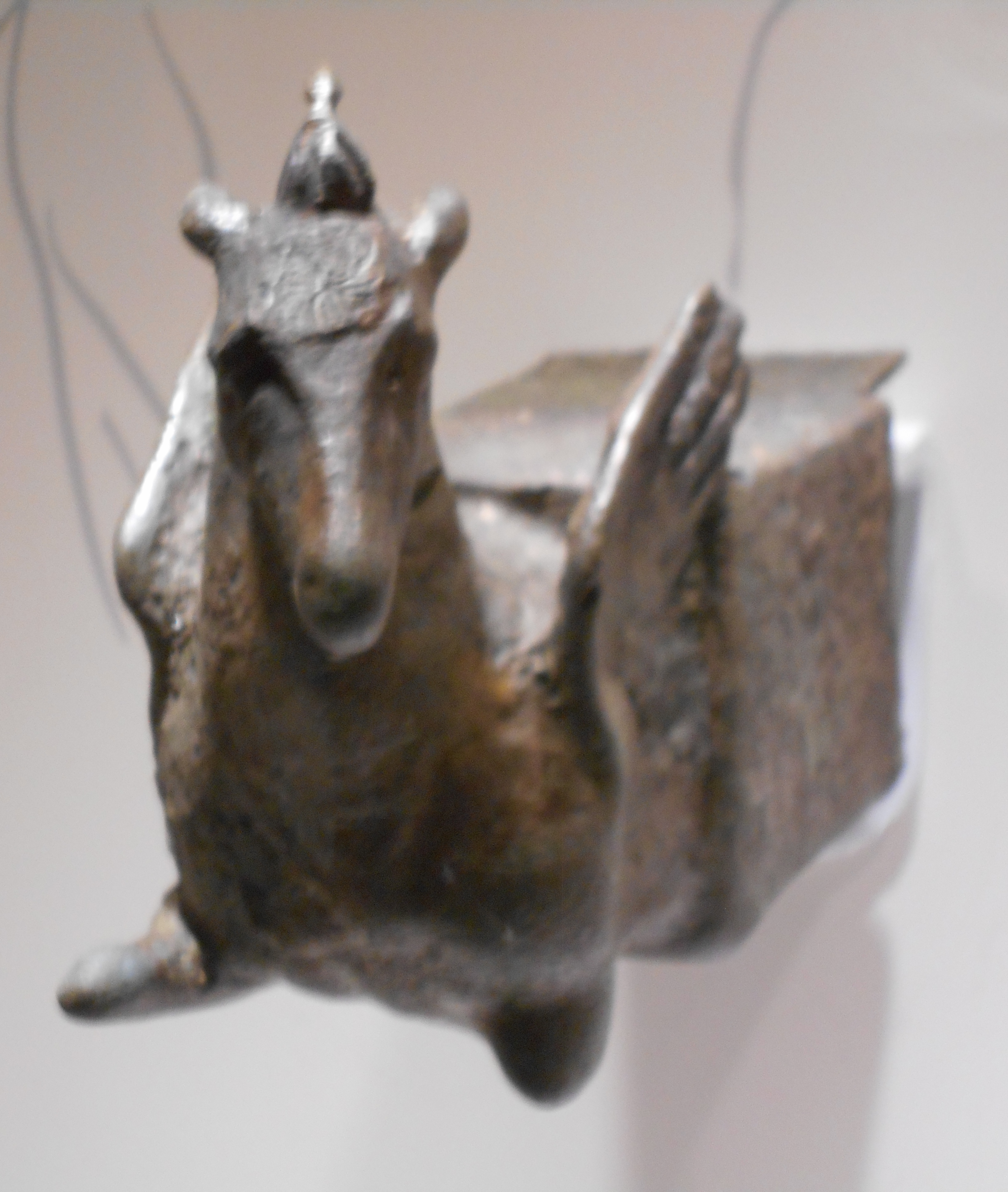 Figurine of Pegasus es part of e bronze box, part of the ornament of a ship, 1. or 2. century AD, found near Güneyköy (Antiochia ad Cragum), today in tne Archeological museum of Alanya, Turkey